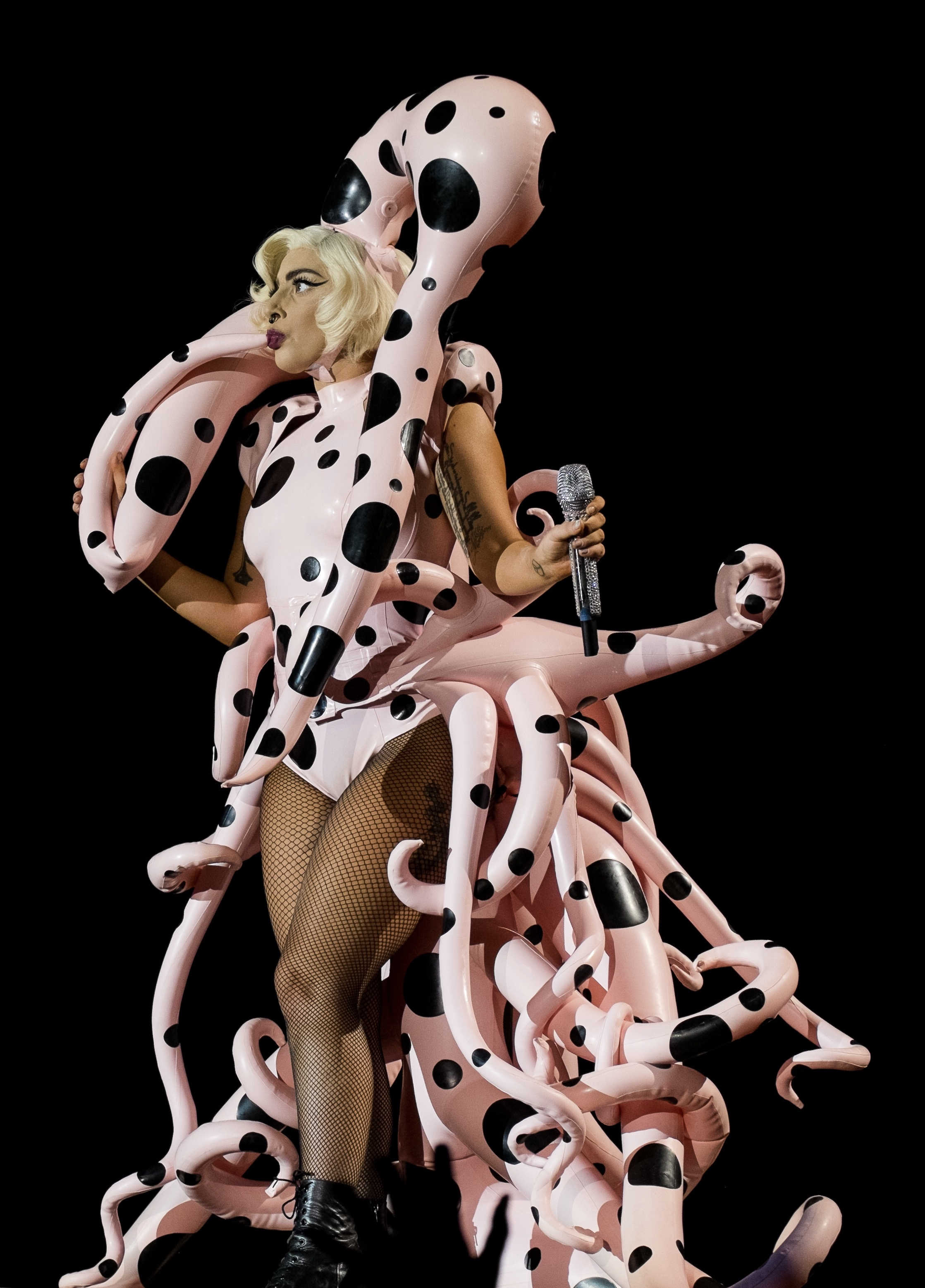 Lady Gaga performing "Paparazzi" on the Artpop Ball in Perth